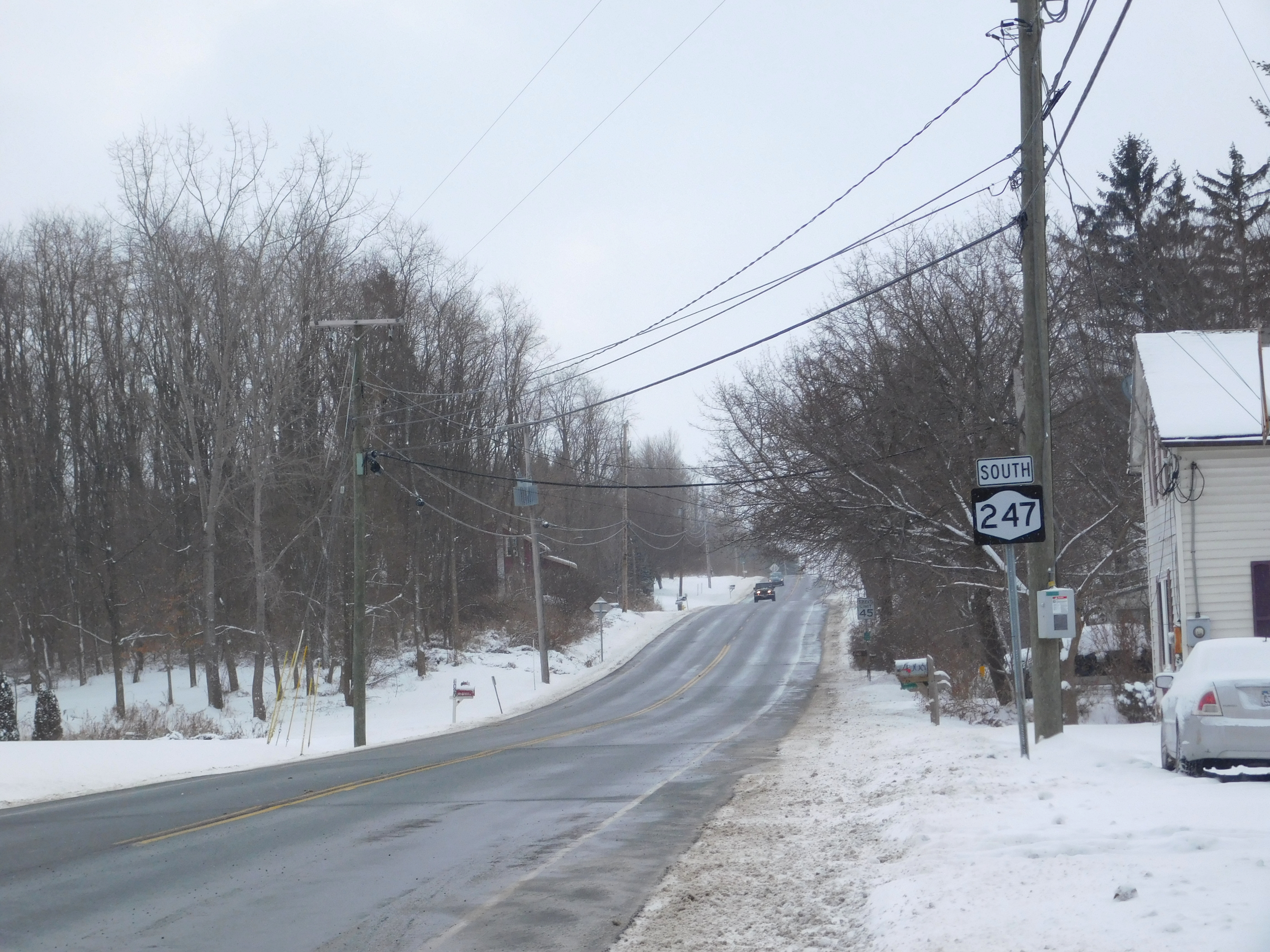 NY 247 in Reed Corners, New York.